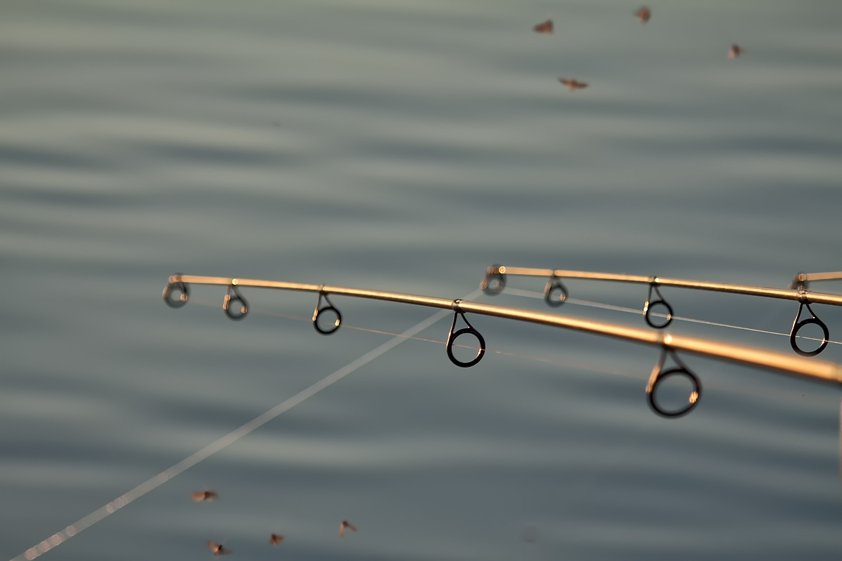 Check out the flies in this image....